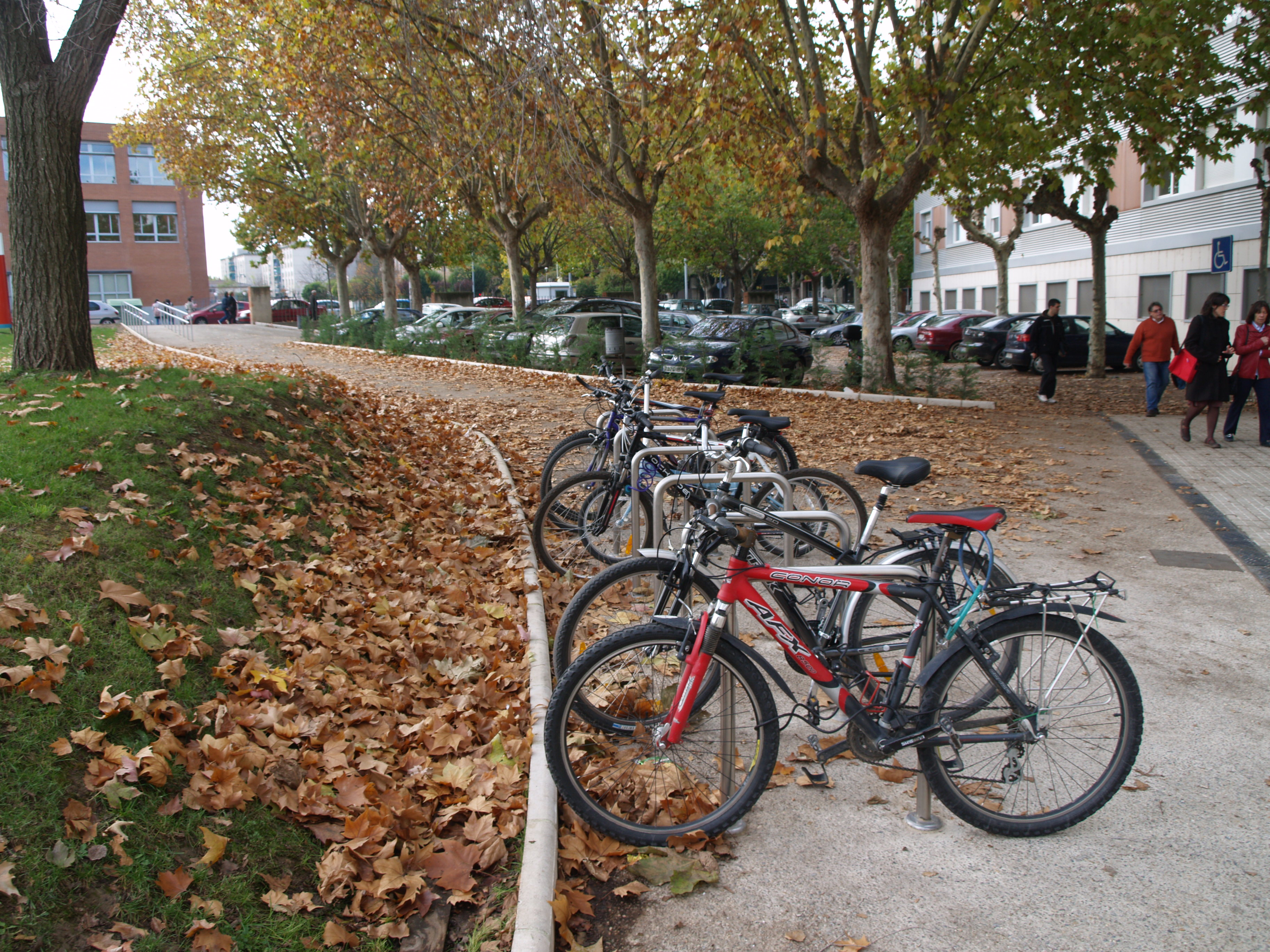 Parked in the bike shed Vives building the campus of the University of La Rioja.